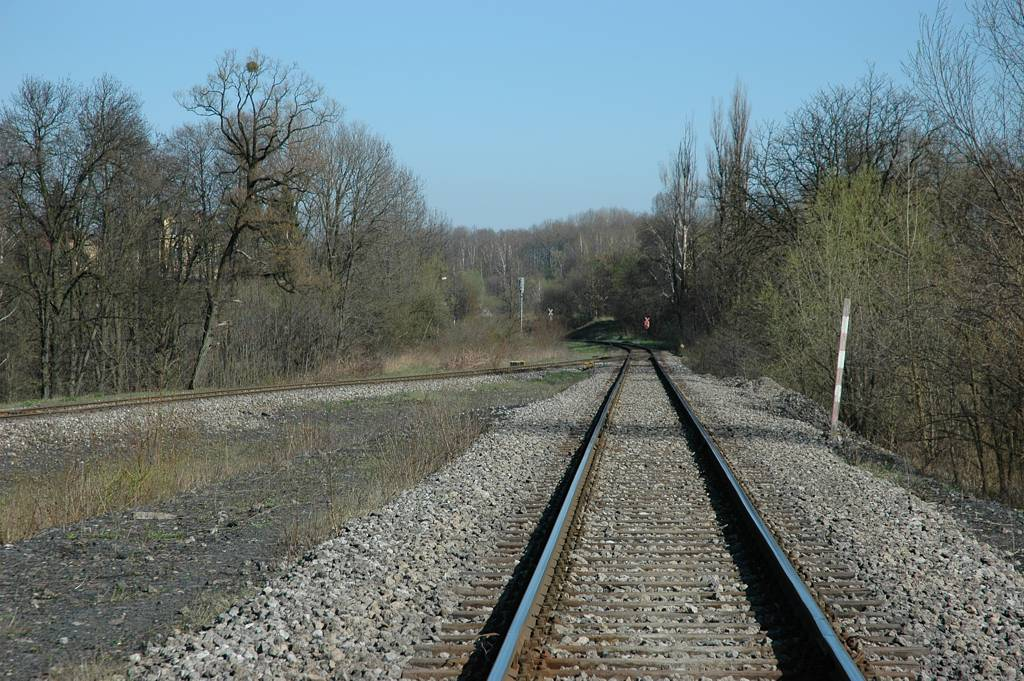 New shifted part of the Mine Railway at the square of the old Orlová and connection of the railway to the Košice-Bohumín Railway